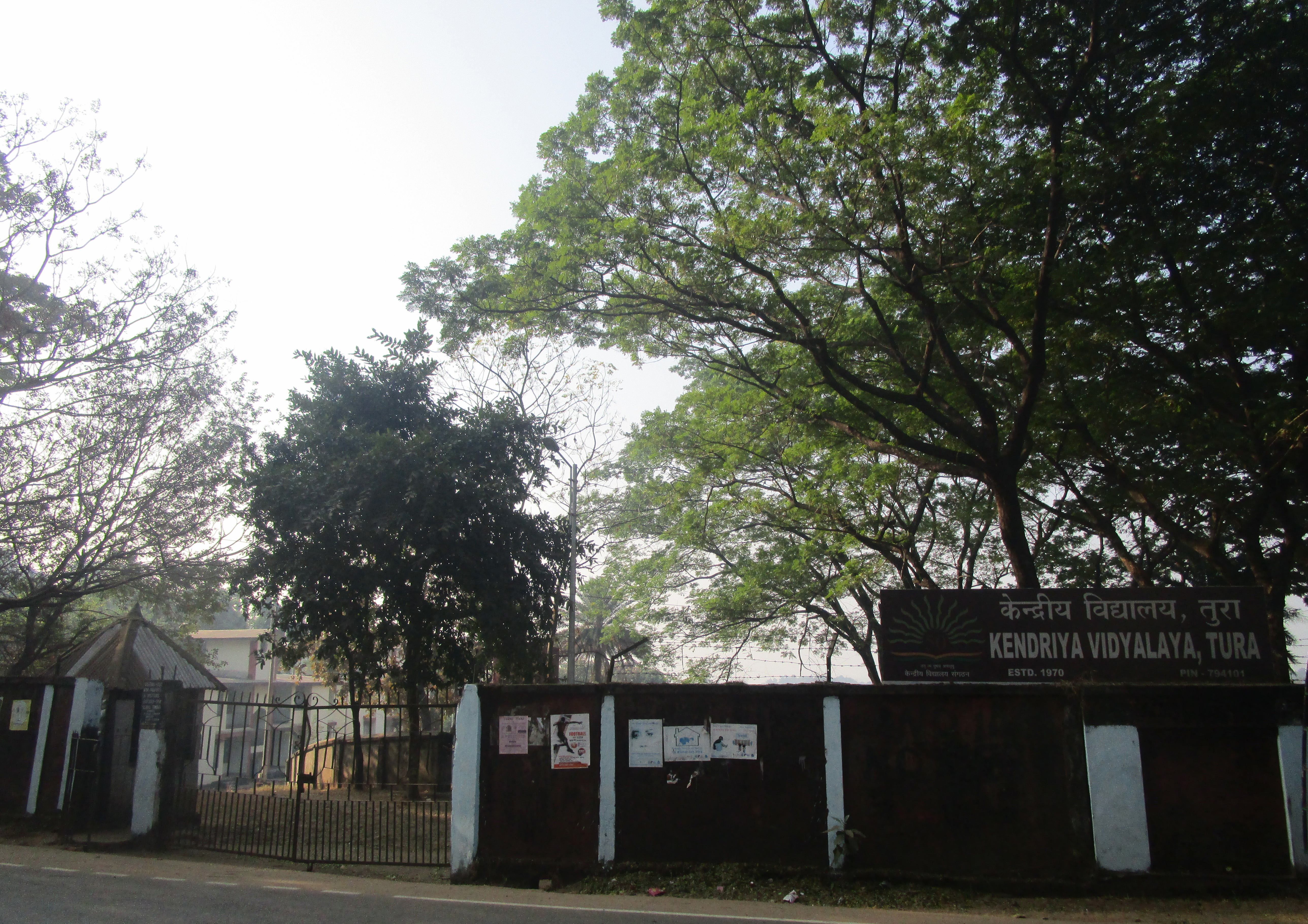 The main gate and nameplate of Kendriya Vidyalaya at Tura, Meghalaya.